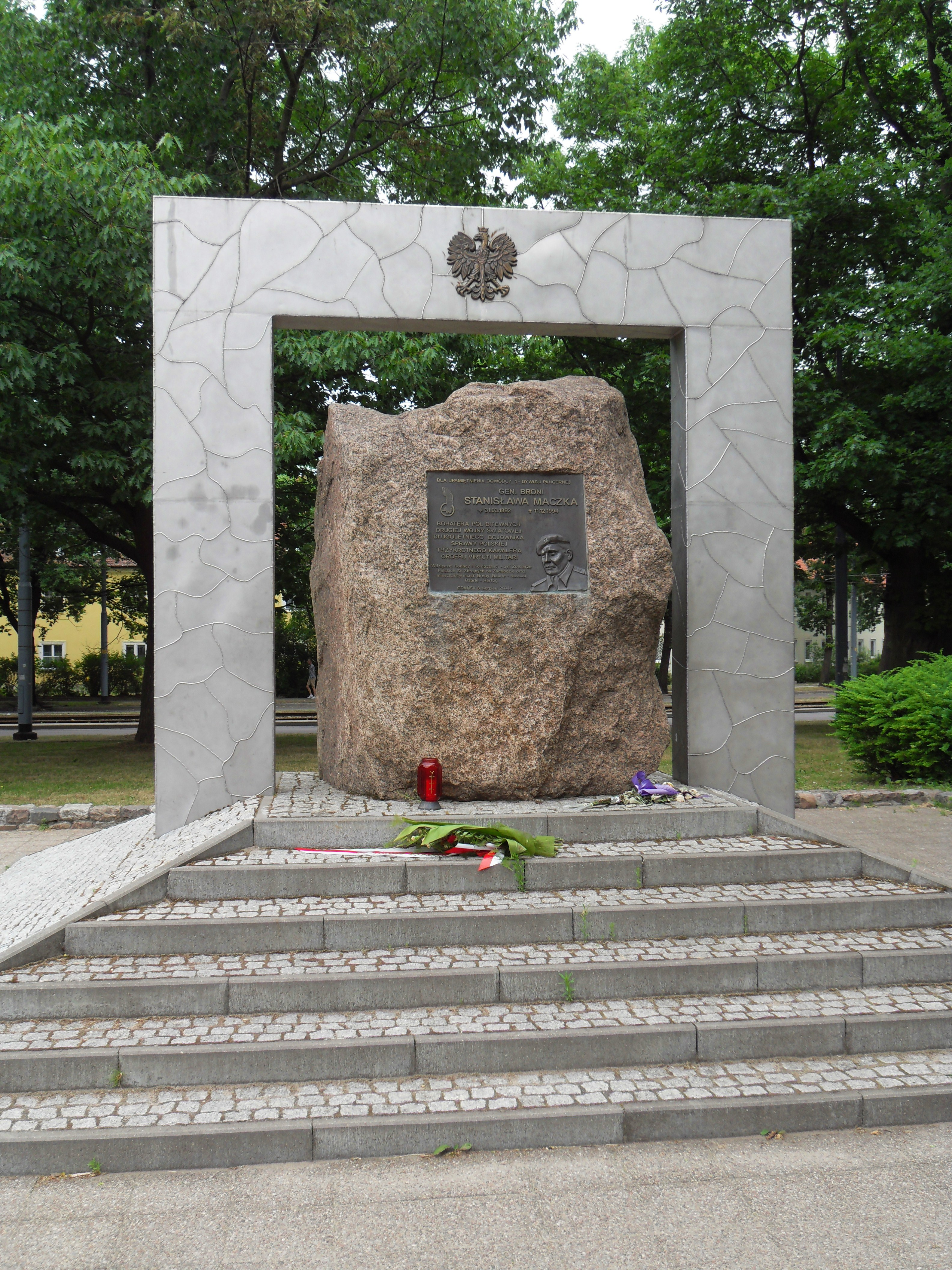 A monument to general Stanisław Maczek in Gdańsk Strzyża (Poland).